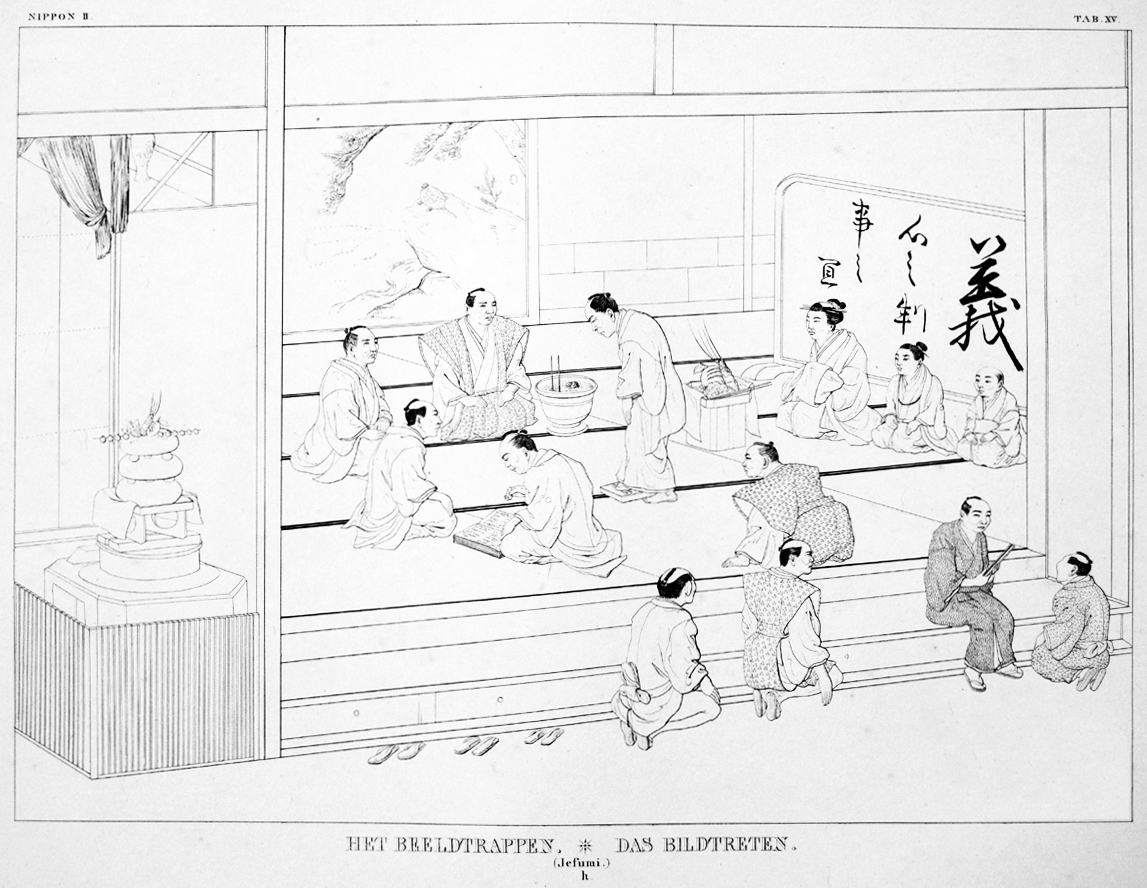 Stepping on a Christian relief in front of Nagasaki gouvernment officials. Illustration made for the German Physician Philipp Franz von Siebold, who worked at the Dutch trading-post Dejima from 1823 to 1829.